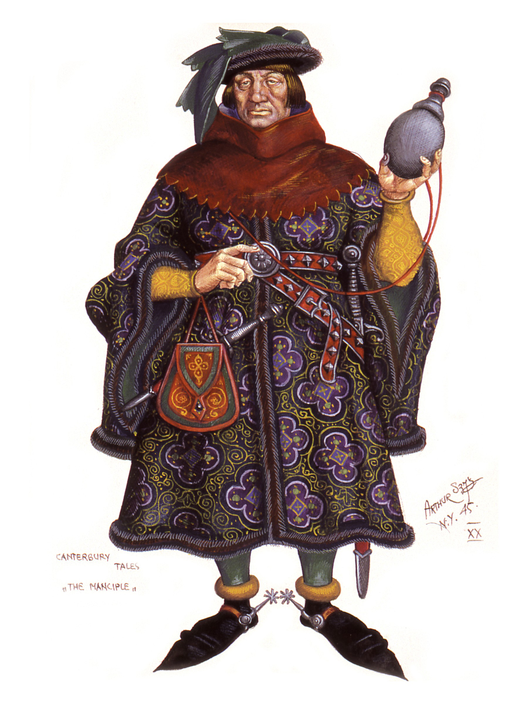 In this illustration for Geoffrey Chaucer's medieval poem The Canterbury Tales, Szyk depicts the Manciple. In charge of buying provisions for an inn, the Manciple is well-dressed in a short robe and cowl. Though he holds a flask, his stern face and the multiple weapons on his belt exude a guarded demeanor.